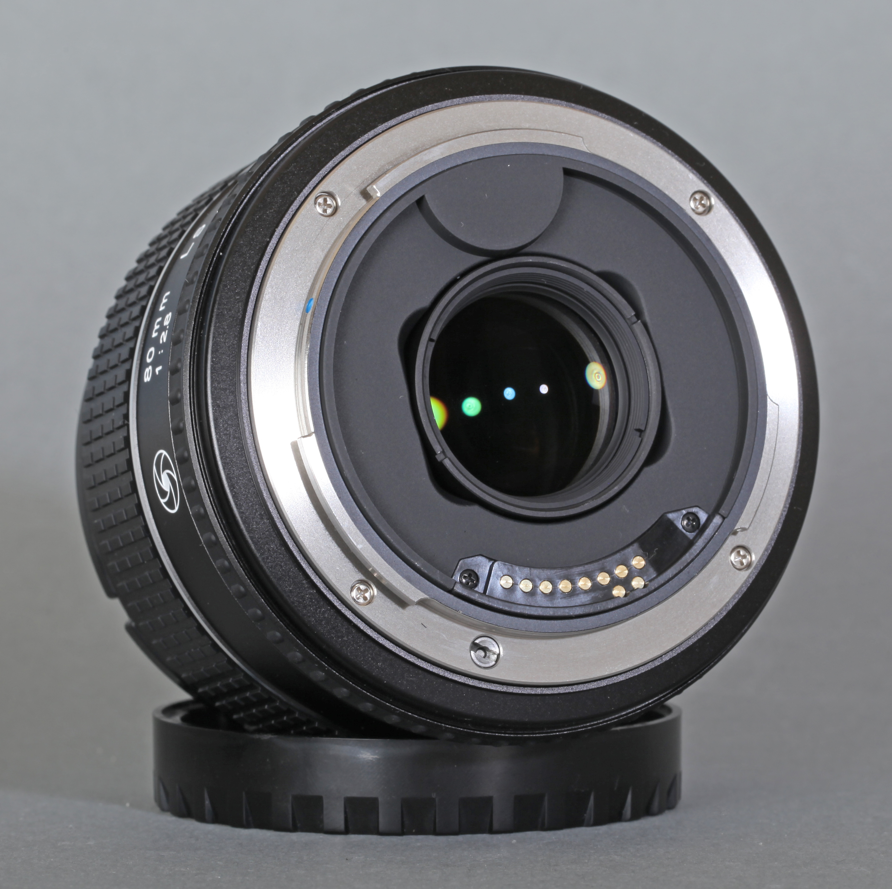 Rear view of the Schneider Kreuznach lens for the Phase One/Mamiya 645DF